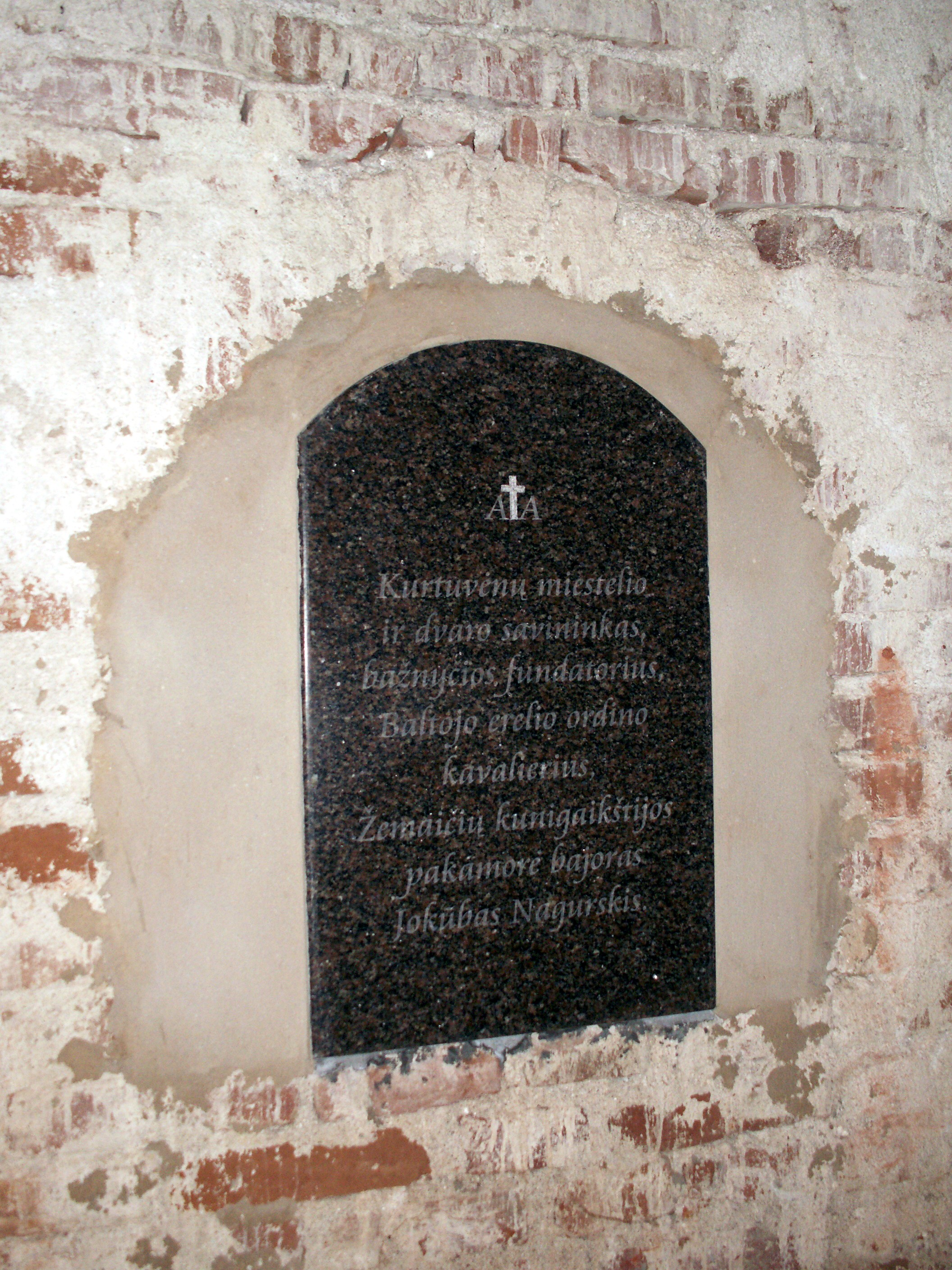 Kurtuvėnai church underground, grave of Jokūbas Nagurskis, Šiauliai district, Lithuania